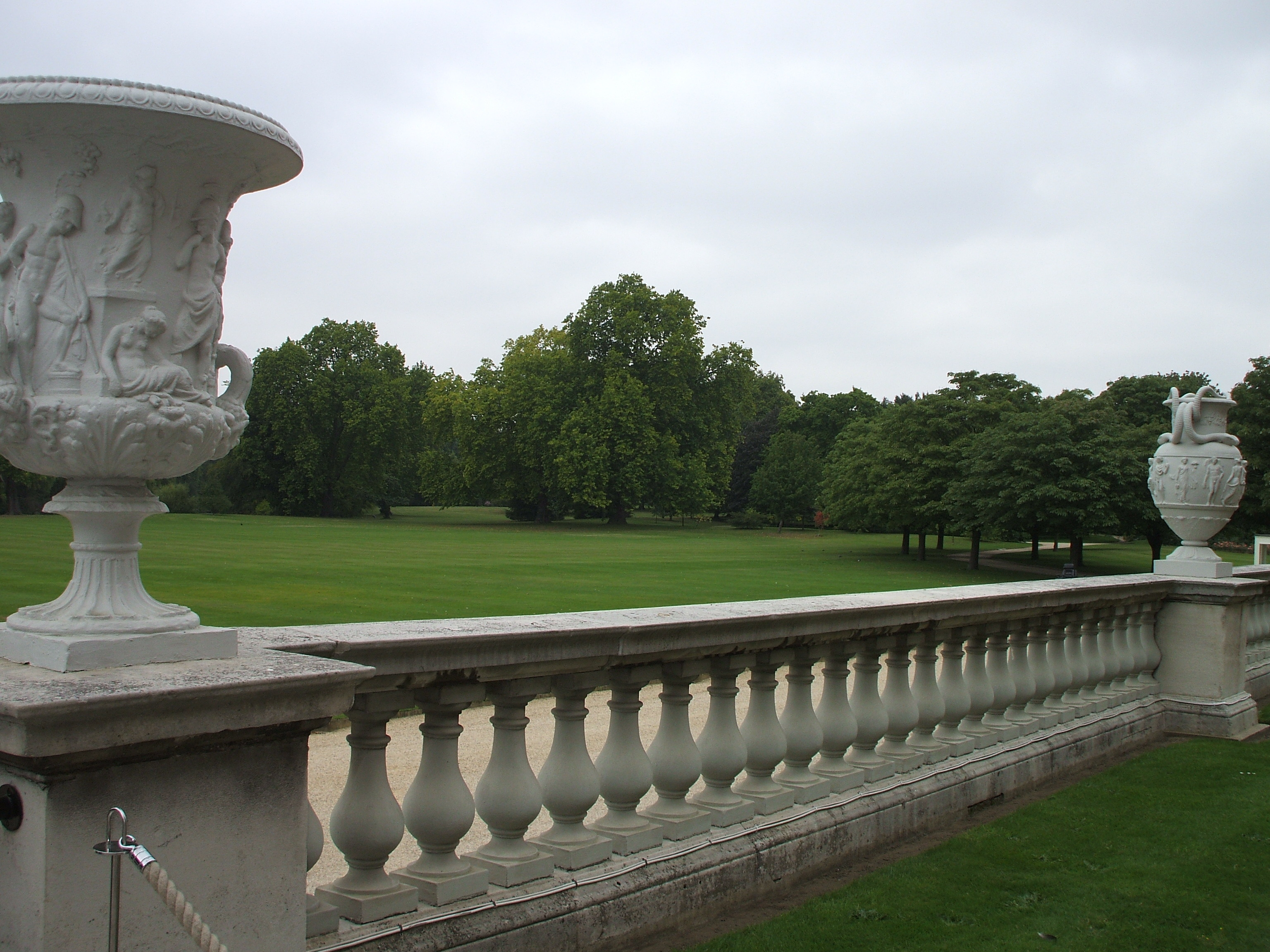 Decorated vases on a stone balustrade on the west side of Buckingham Palace, London